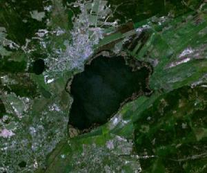 Turs'ke lake, Ratne raion, Volyns'ka oblast', Ukrajina.